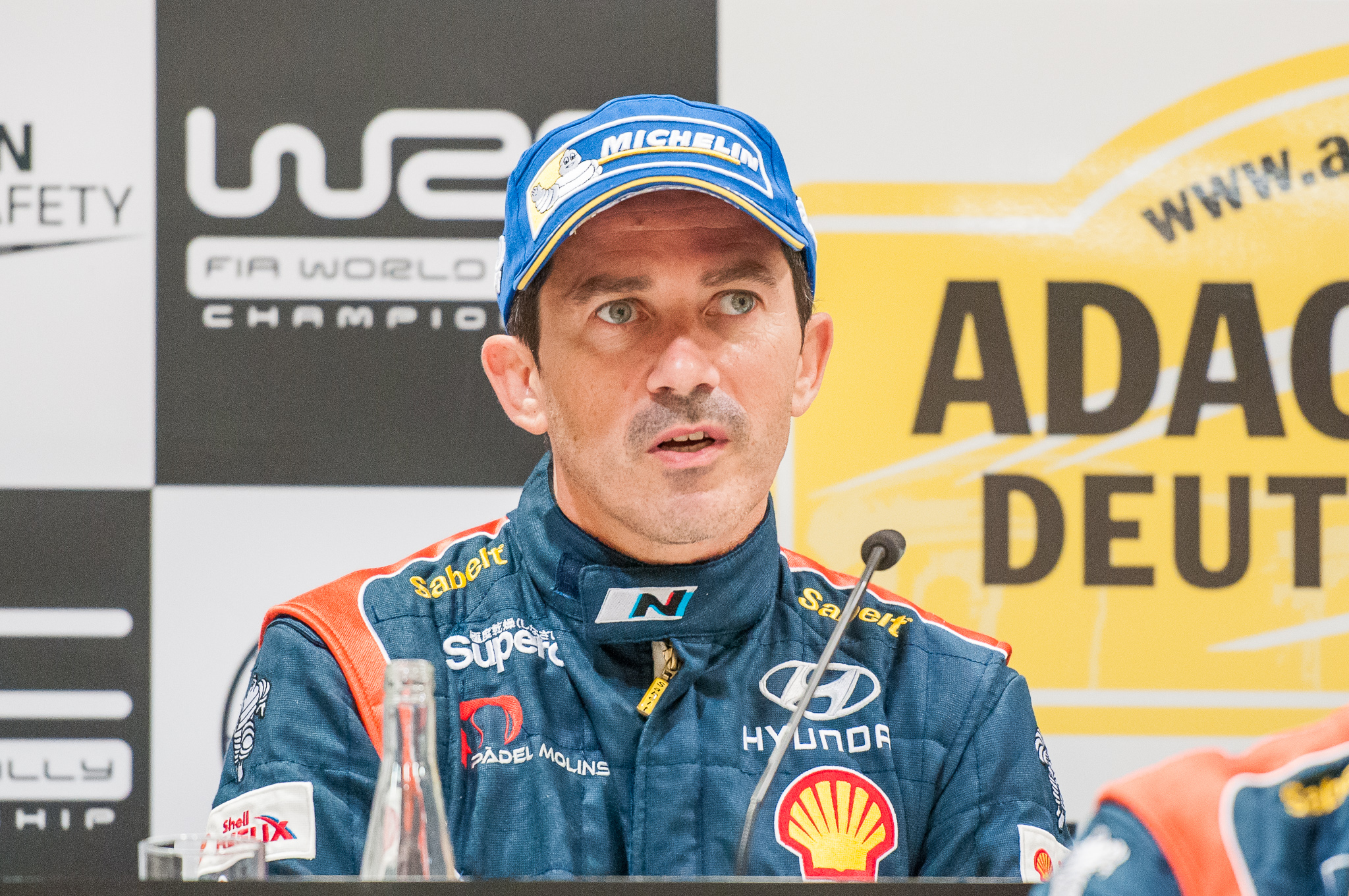 ADAC Rallye Deutschland 2014,FIA,FIA World Rally Championship,Hyundai Motorsport,Marc Marti,Motorsport,Pressekonferenz,Rally,Rallye,WRC